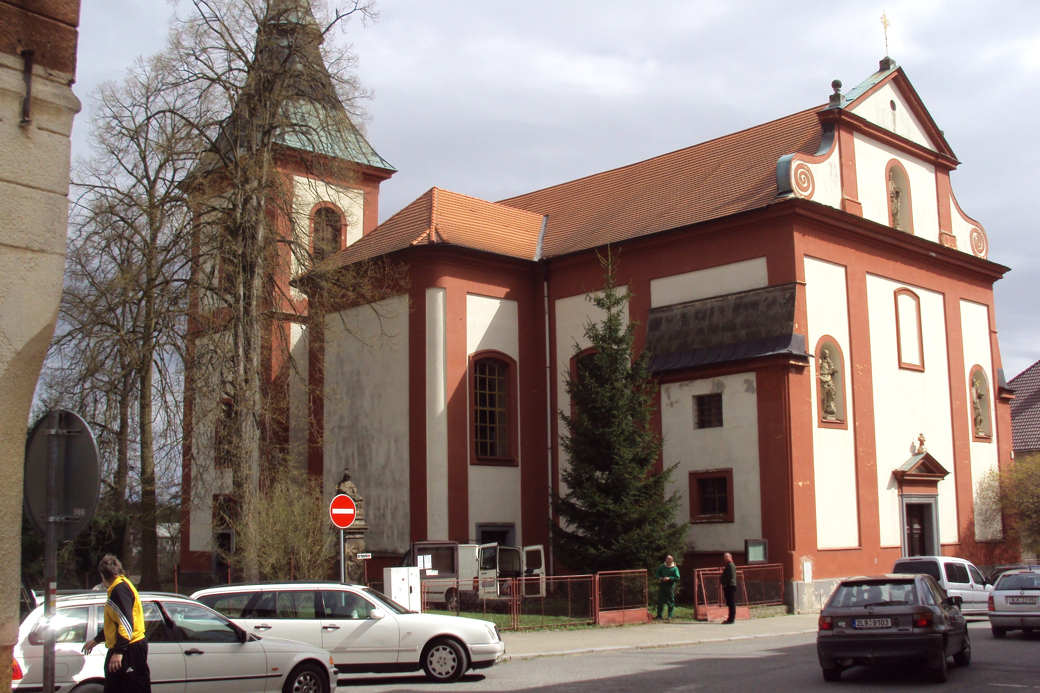 Church of St. Bartholomew and Assumption of Virgin Mary in Doksy, Česká Lípa District, Czech Republic